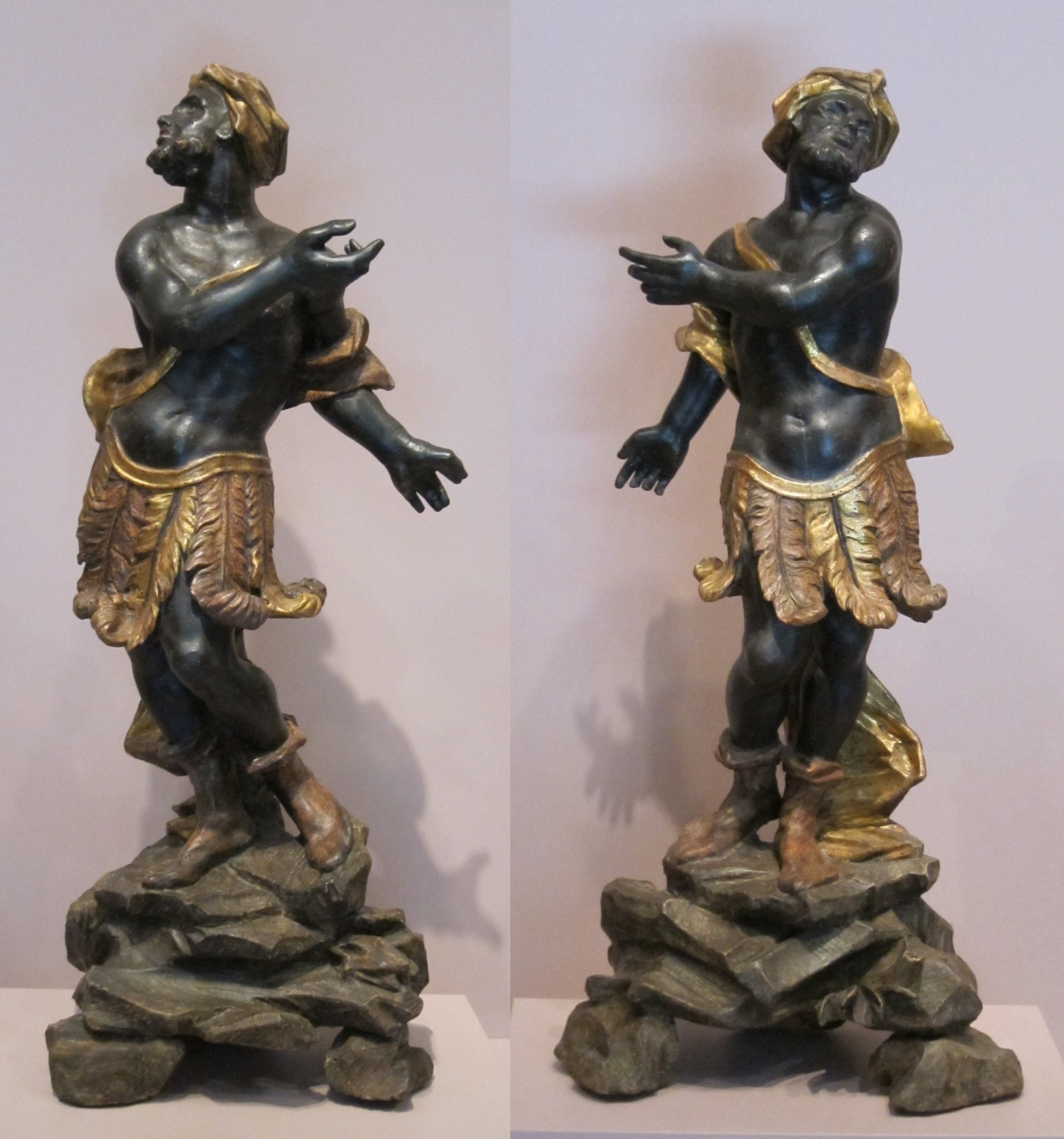 18th century Italian blackamoors, wood, polychrome decoration and gilding, Honolulu Academy of Arts